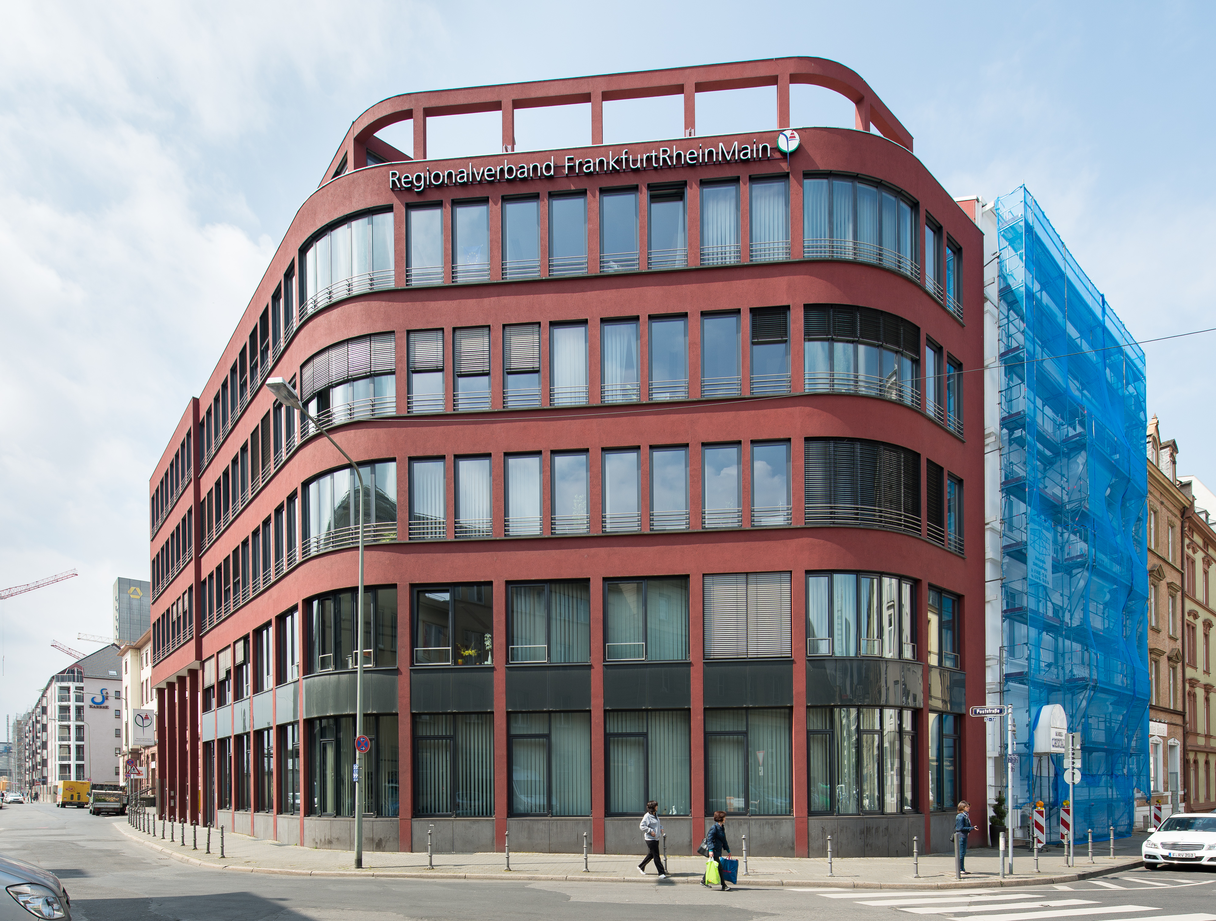 Frankfurt am Main, Poststraße 16, office building in which the Regionalverband FrankfurtRheinMain is located (April 2014).